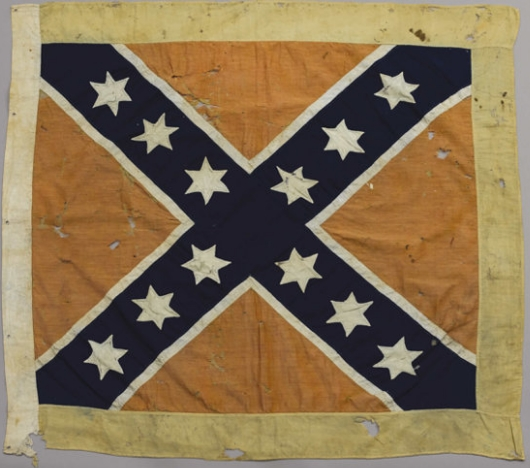 Battle Flag of the 4th Tennessee Infantry